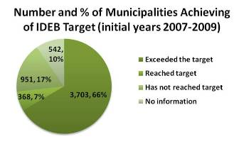 Number and % of Municipalities Achieving of IDEB Target (2007) based on information from "The Right to Learn" published by Unicef (